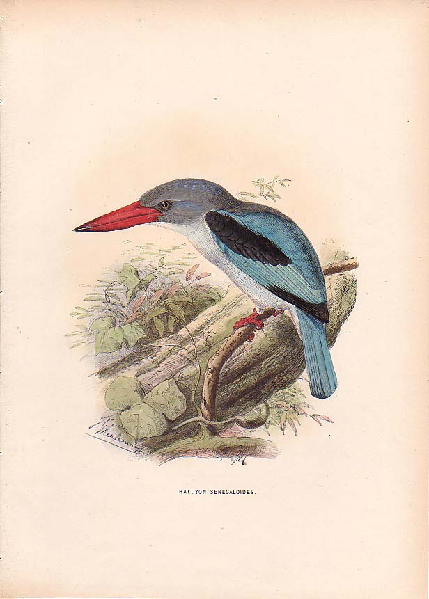 Halcyon senegaloides (now Halcyon senegalensis) by Keulemans